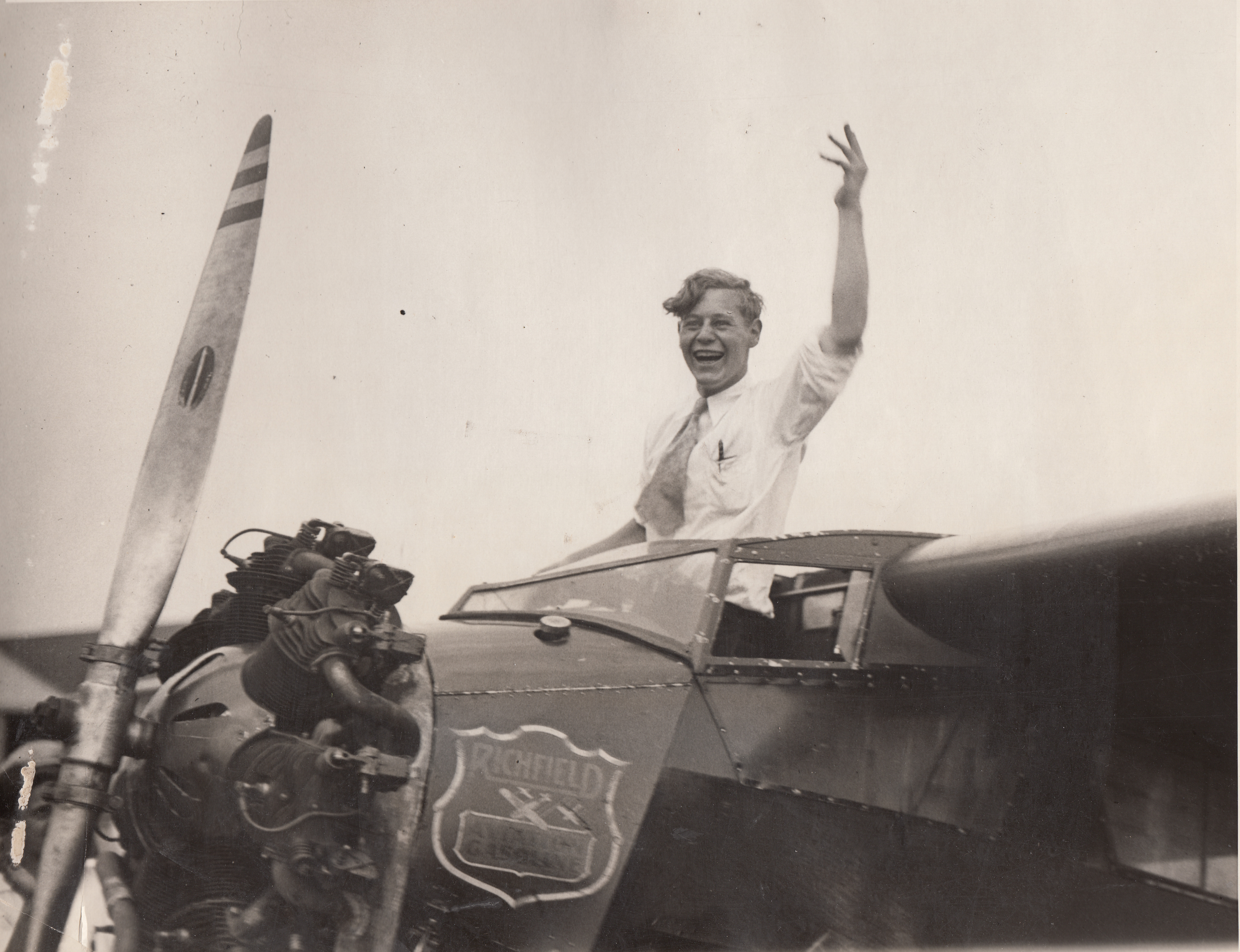 Eddie August Schneider (1911-1940) waving on August 24, 1930 . Image was scanned at 600 dpi and compressed to 95 quality.